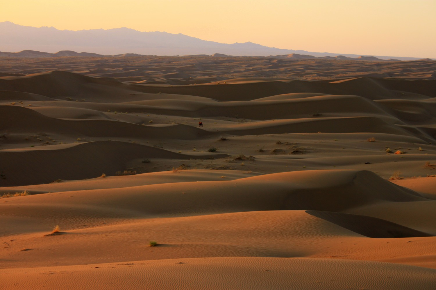 Near Kashan.